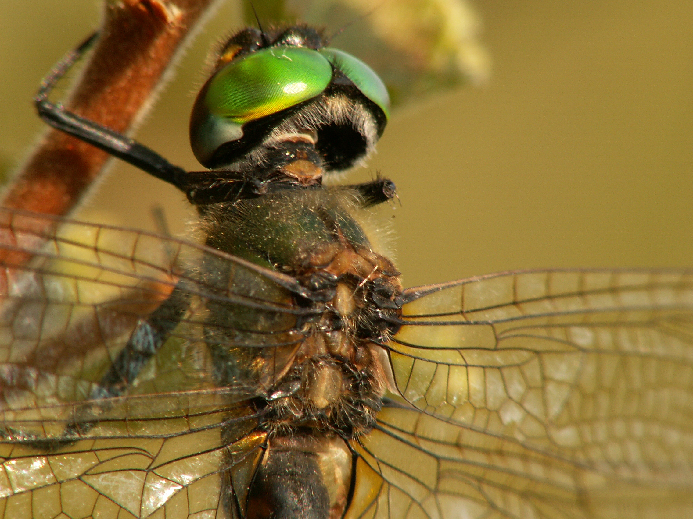 Somatochlora arctica Northern male Brunssummer Heide Netherlands